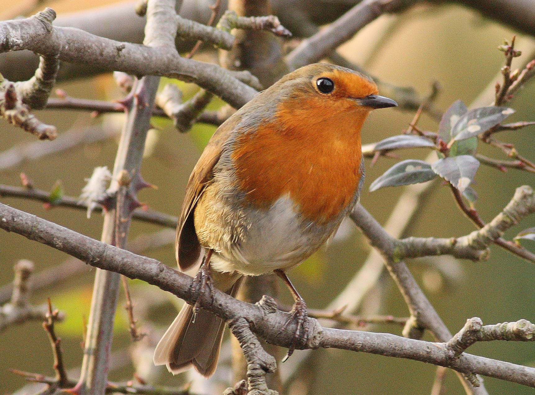 A European Robin in a garden in Leicestershire, England.